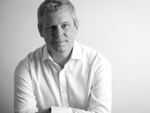 Portrait of Gareth Hoskins OBE, Architect